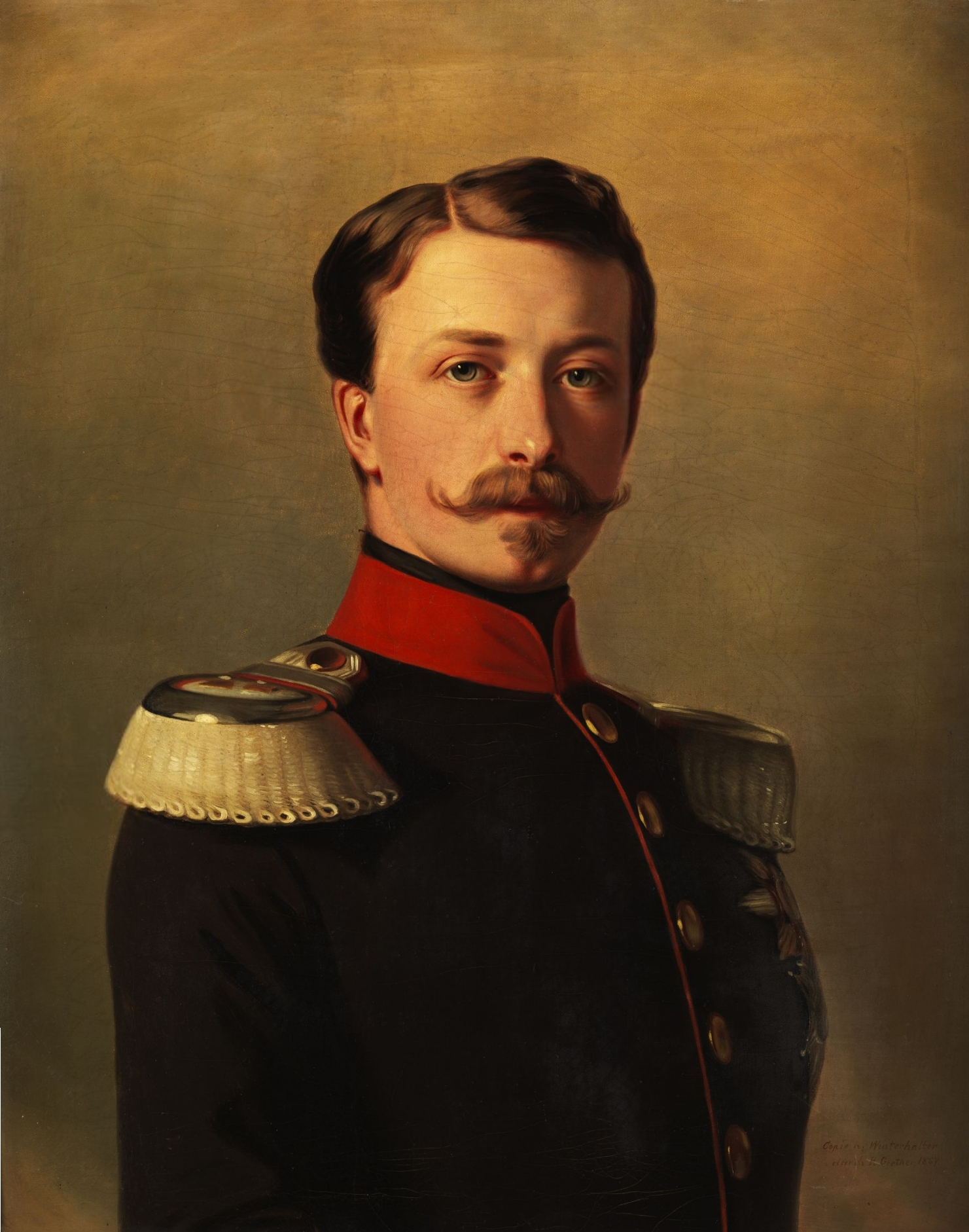 Copy of the Winterhalter painting by R. Grether from 1857